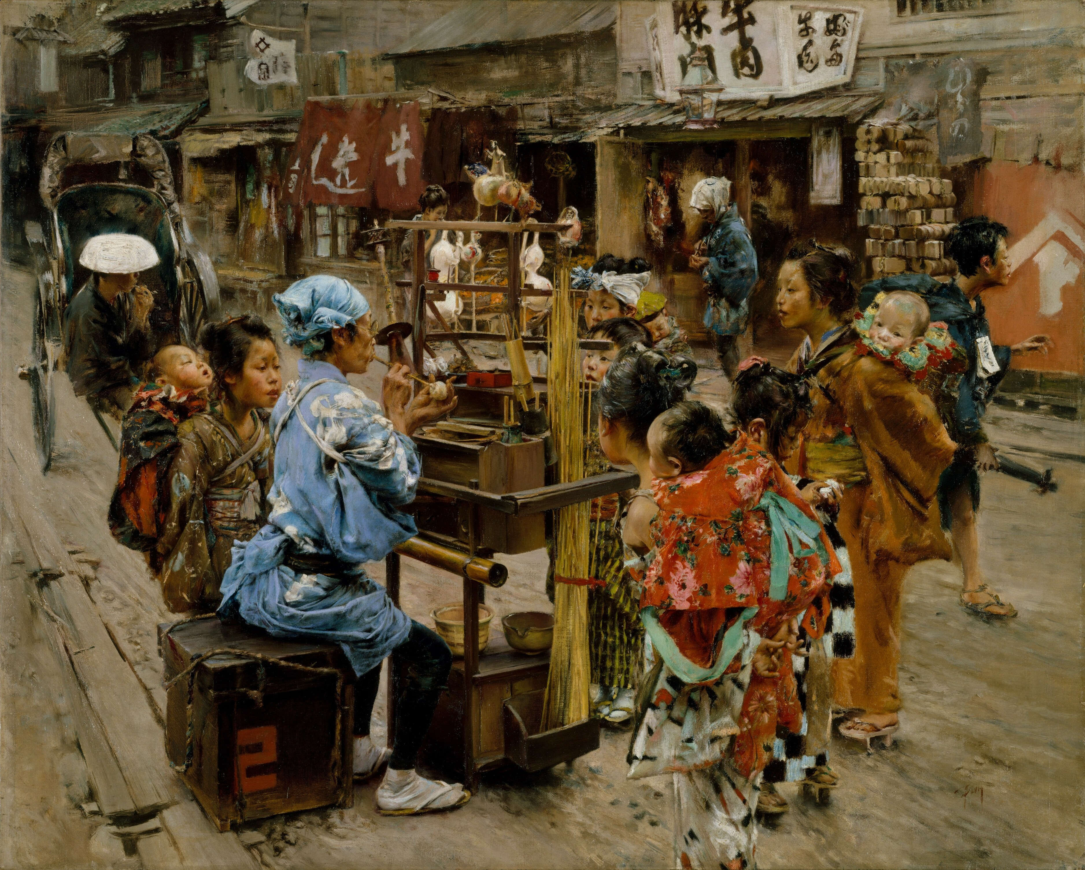 Robert Frederick Blum exhibited this canvas at the National Acadamy of Design in 1893. It was his most ambitious work at the time and resulted in him being awarded full membership of the Academy, making him one of its youngest members.